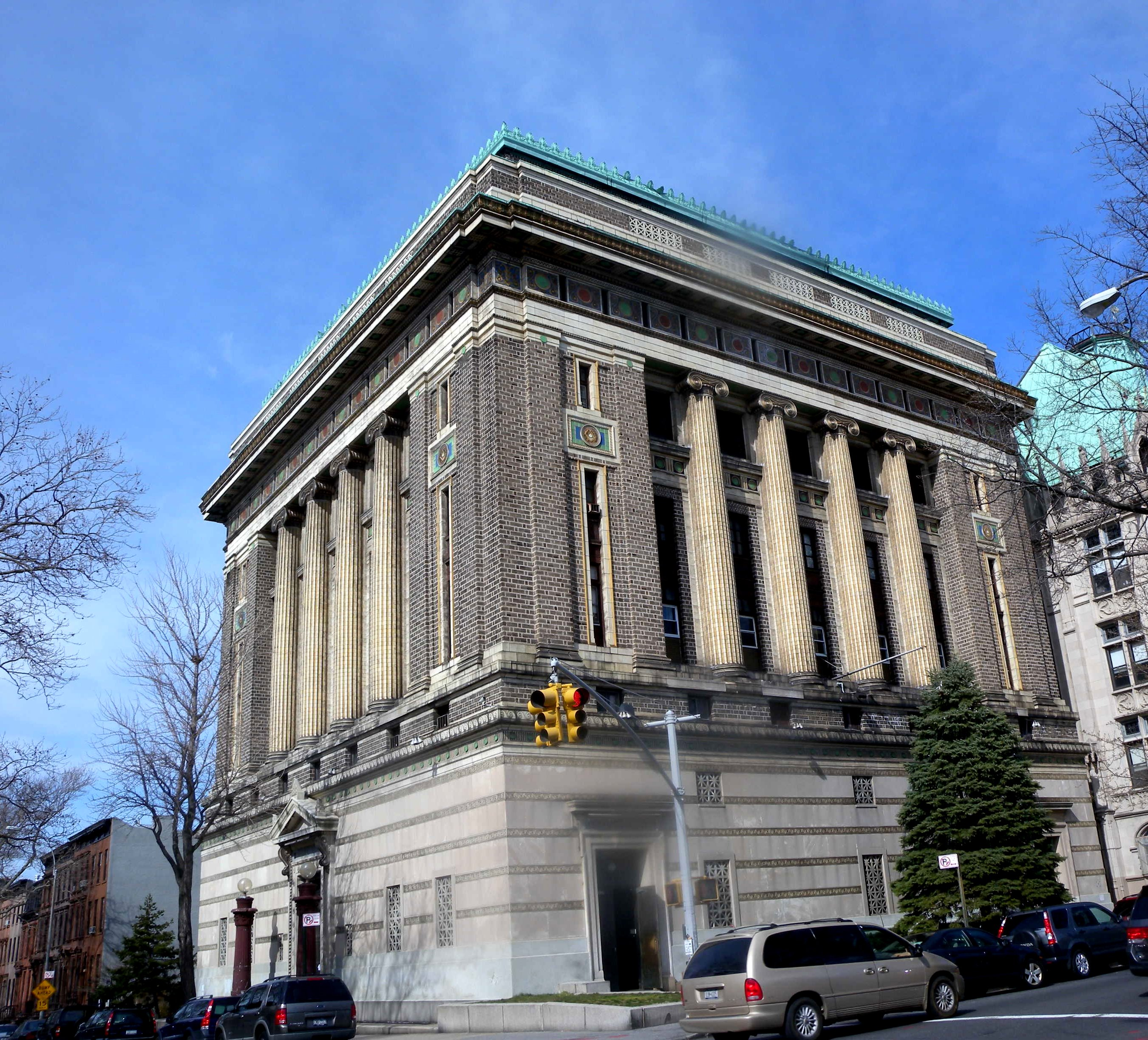 Looking northeast across Lafayette and Clermont Avenues at Masonic Grand temple on a sunny afternoon.